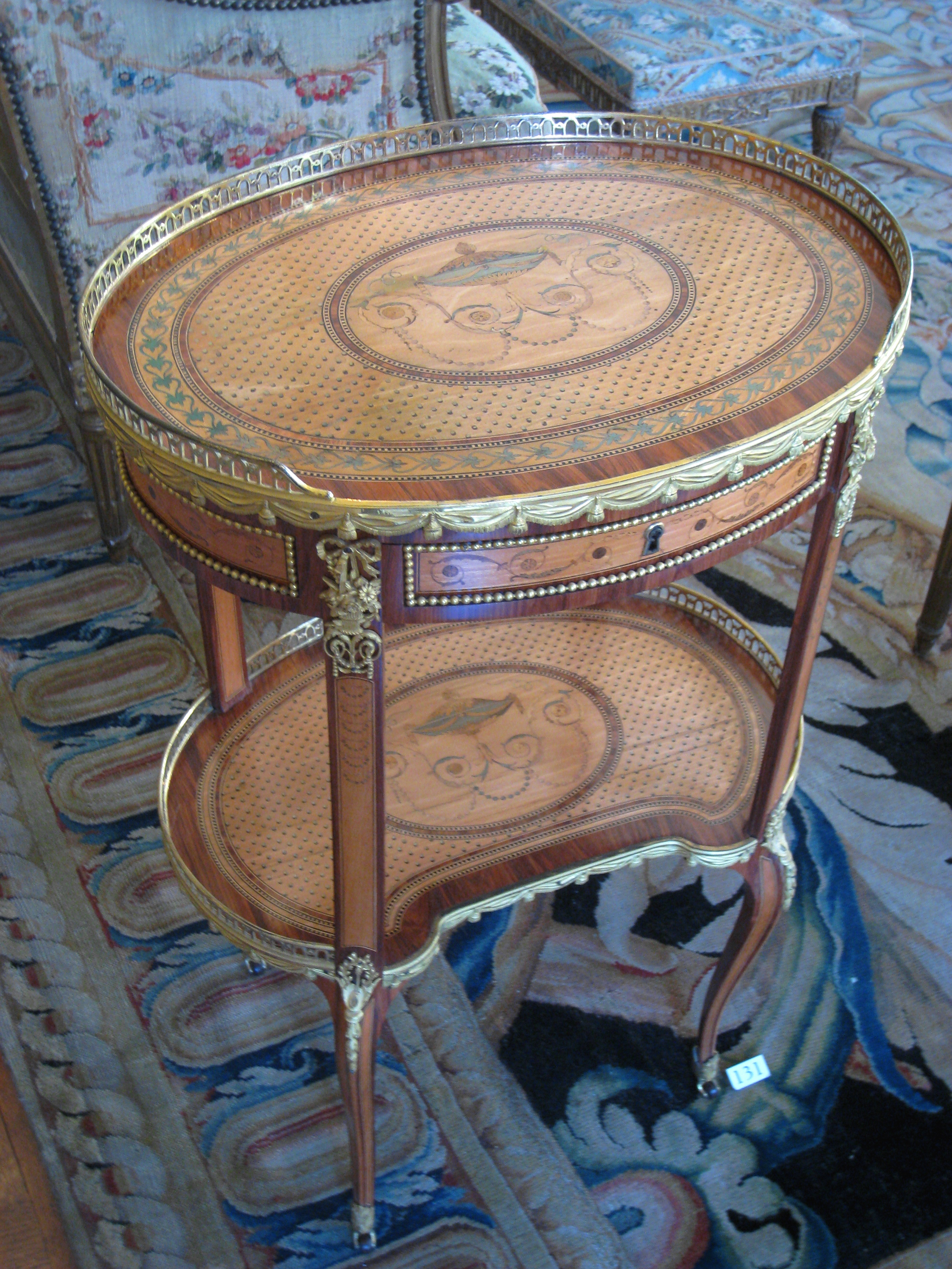 Musée Nissim de Camondo, Paris, France - table by Roger Vandercruse (circa 1775). The original work is old enough so that copyright (if any) has long since expired. The museum imposed no restrictions on photography (except prohibiting flash) in writing and when I explicitly asked; thus the original image appears free of copyright restrictions.